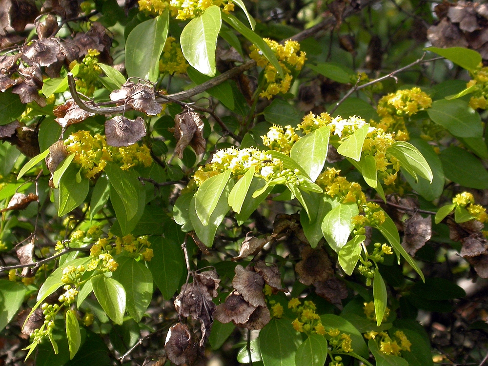 Jerusalem Thorn or Christ's Thorn (Paliurus spina-christi), Frouzet, Languedoc-Roussillon, France